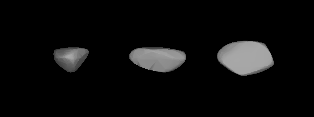 A three-dimensional model of 1889 Pakhmutova that was computed using light curve inversion techniques.